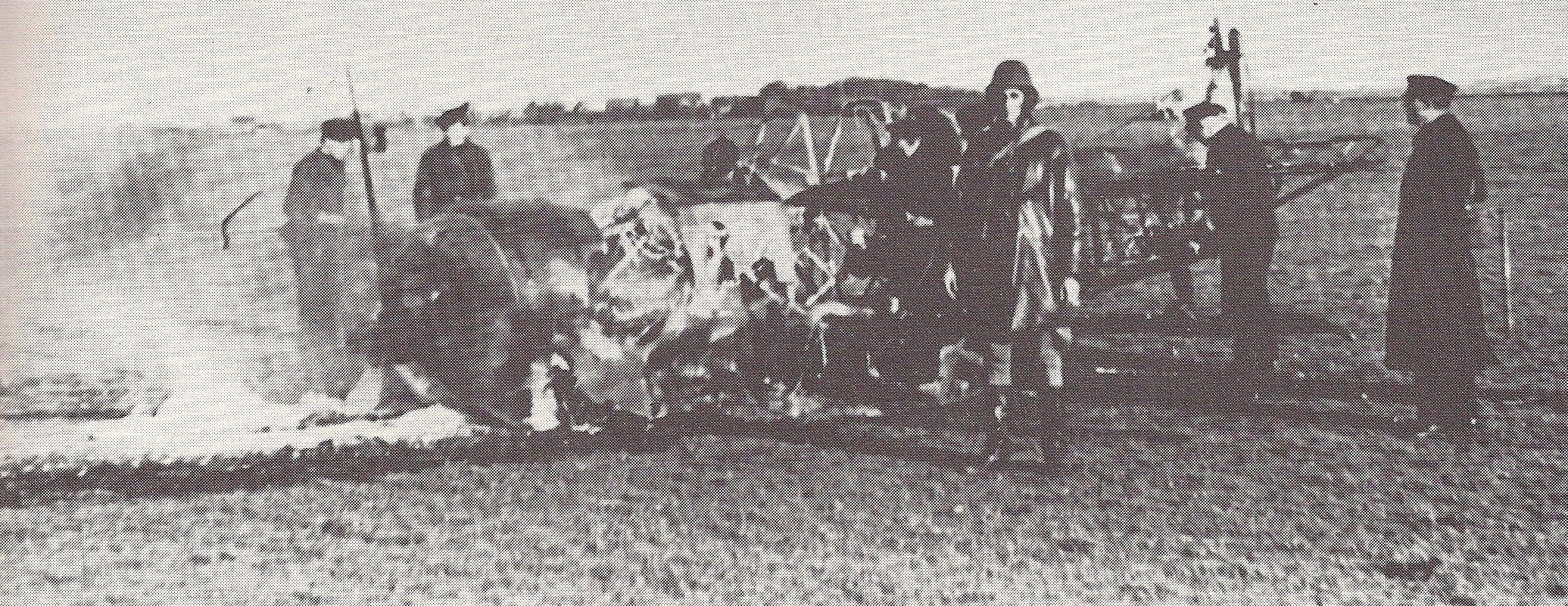 Mei 1940. De Kooy. Jan Bosch levend uit neergeschoten Fokker XXI